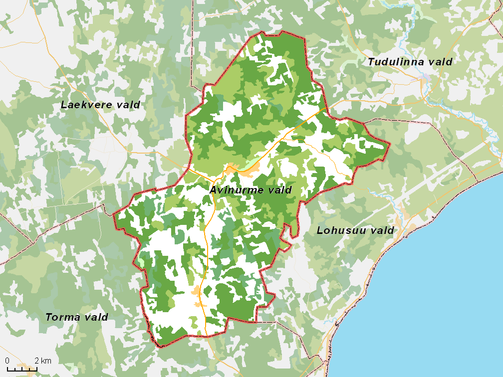 Map of municipality in Estonia